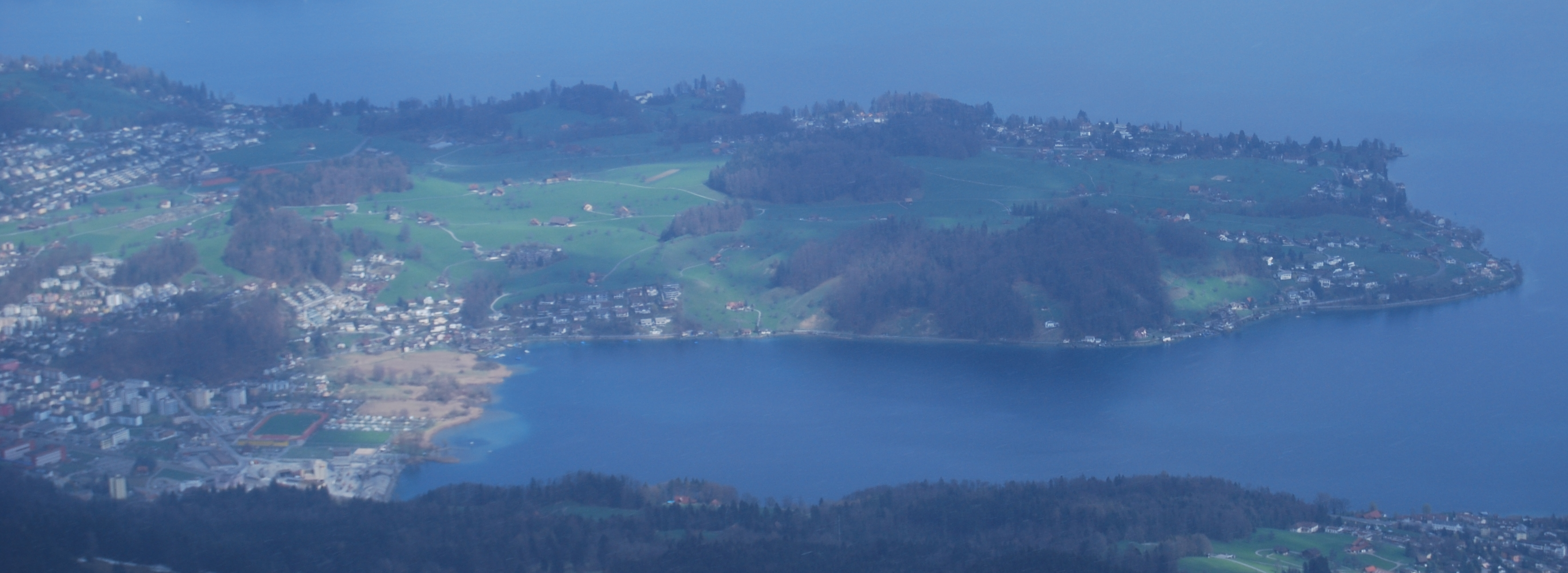 View to Horw from Pilatus, Cantone Lucerne, Switzerland.